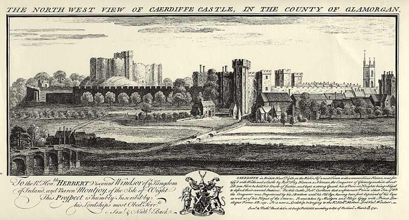 upload old 18th century print of cardiff castle from the_city.htm